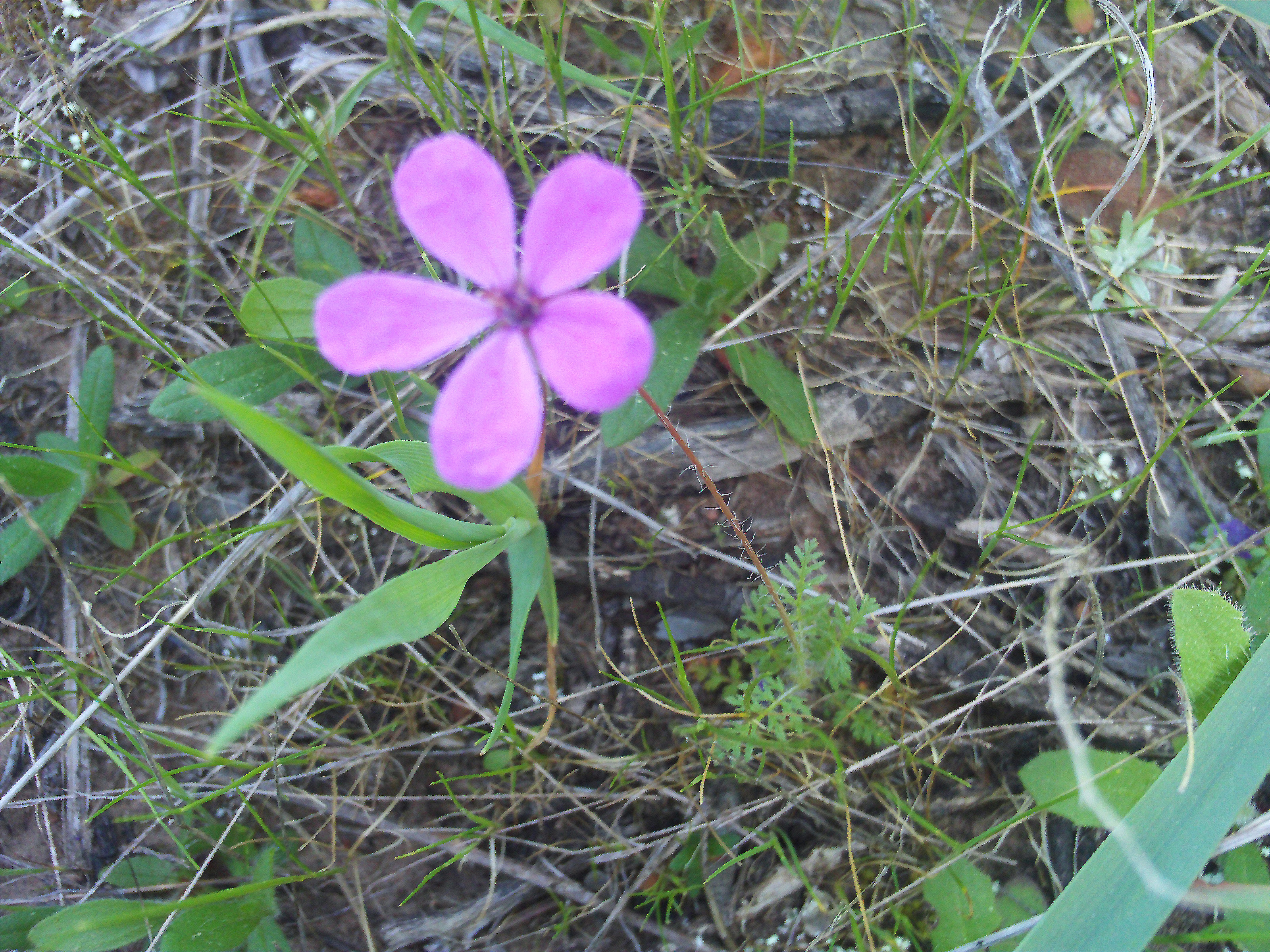 Erodium aethiopicum plant, Dehesa Boyal de Puertollano, Spain